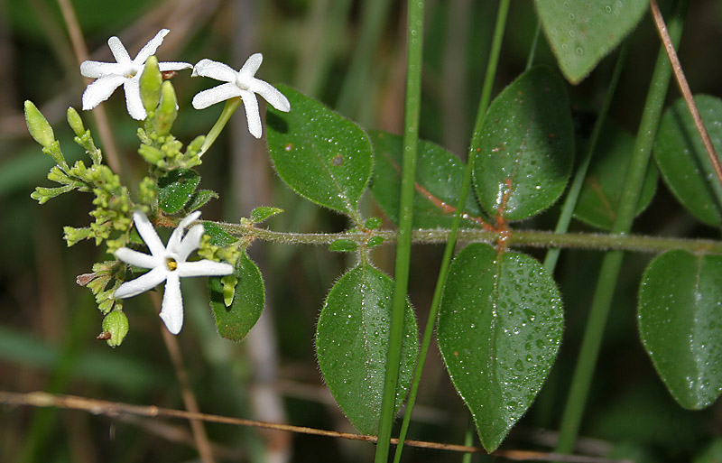 Juhi Jasminum auriculatum at Talakona forest, in Chittoor District of Andhra Pradesh, India.